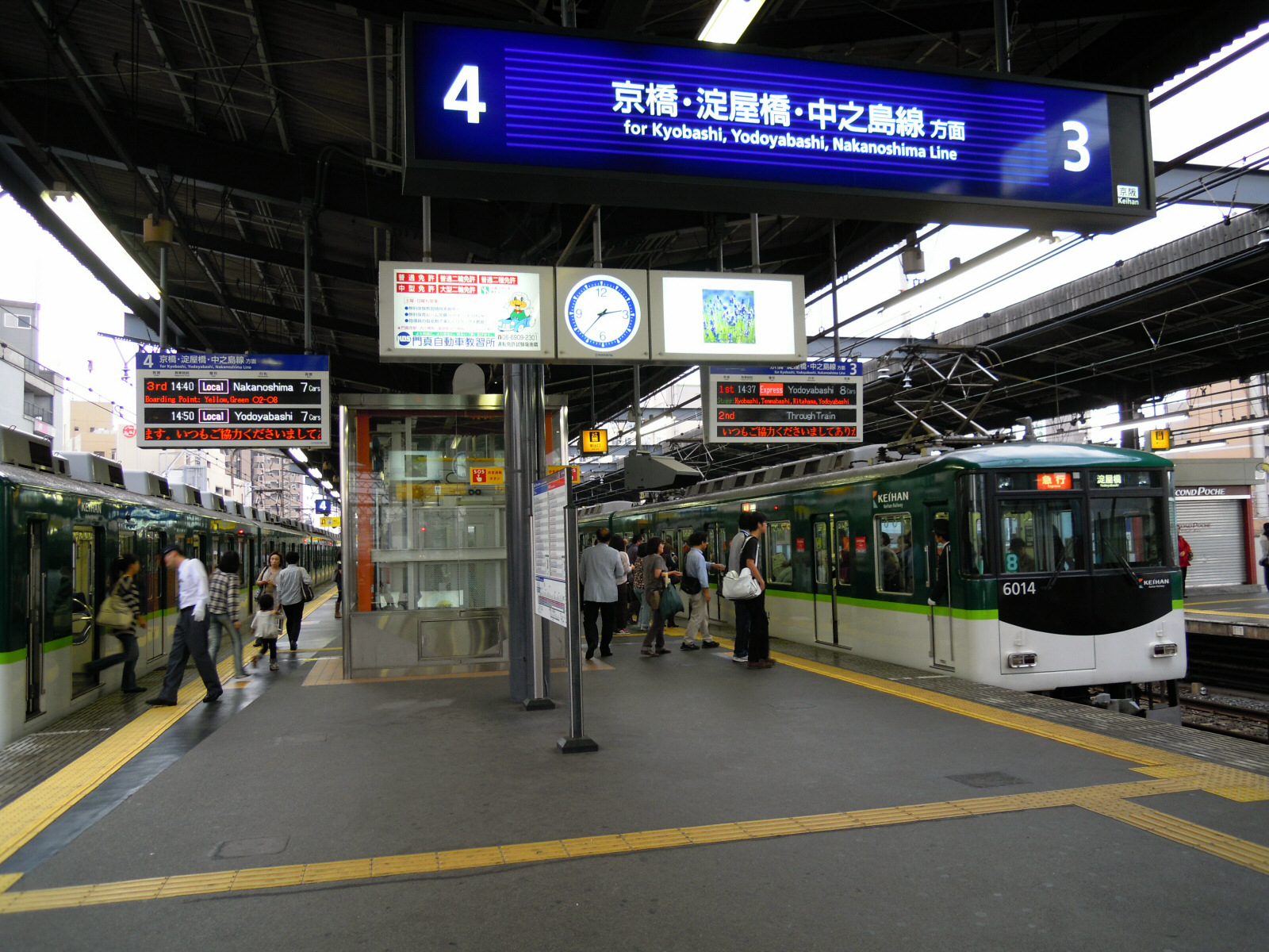 Keihan Moriguchi Station platform